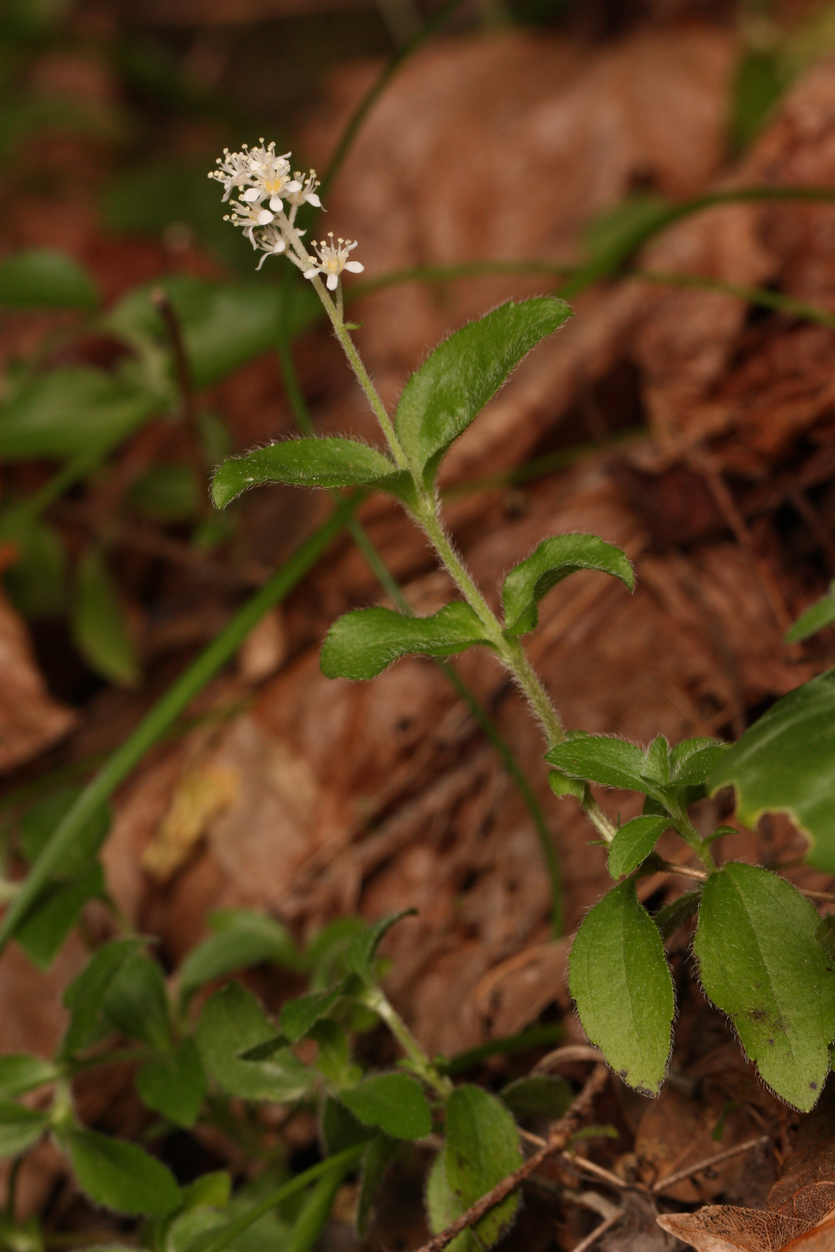 Common Whipplea, Modesty Viewpoint location: Rainie Falls Trail Rogue Wild and Scenic River Viewpoint elevation: 211 meter (693 ft) Location source: Garmin GPSmap 60CSx Location Datum: WGS84